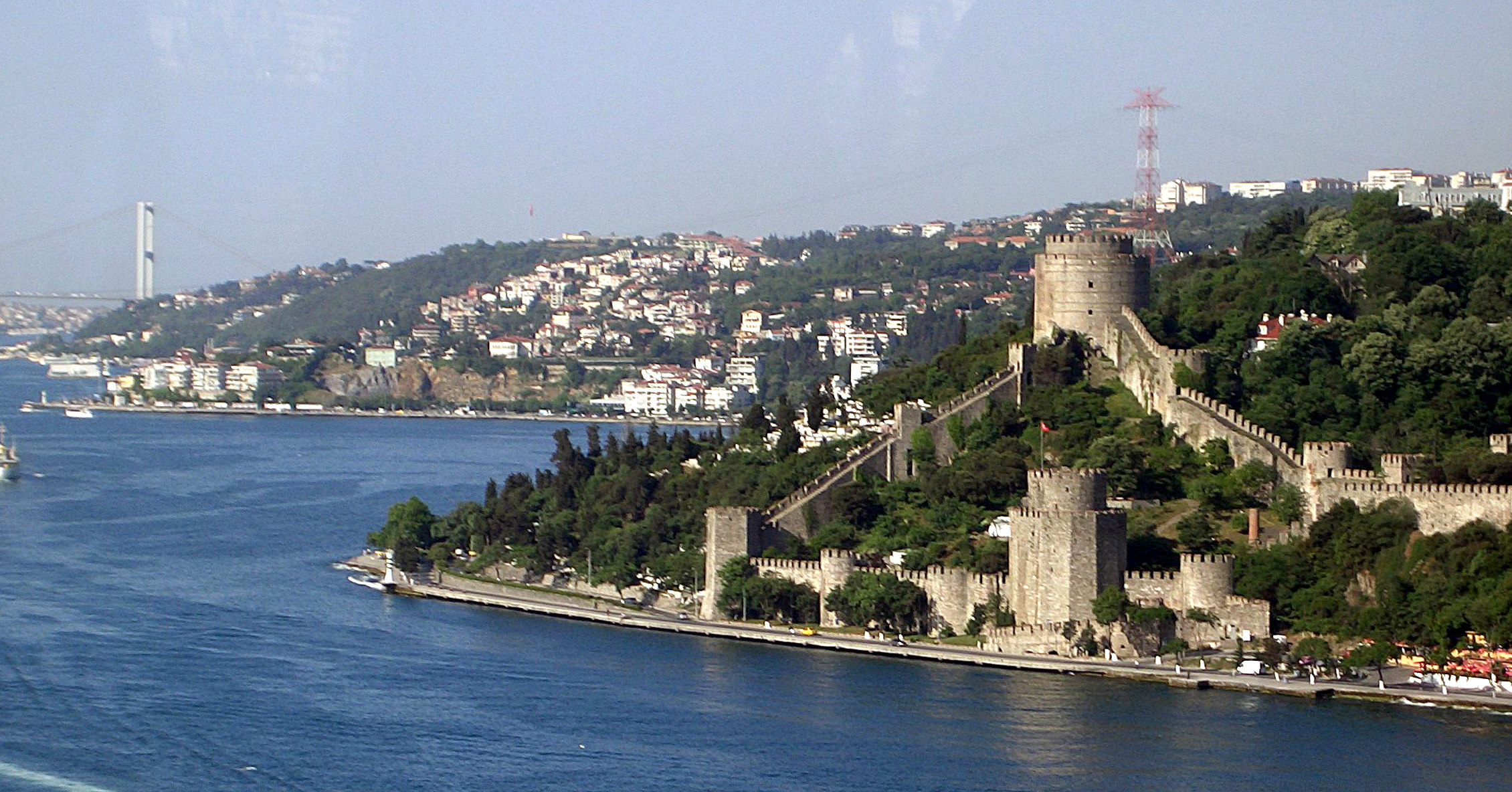 Rumelihisarı